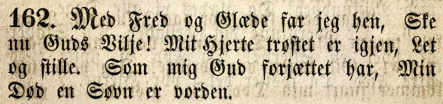 First stanza in the hymn "Mit Fried und Freud ich fahr dahin", translated into Norwegian by M.B. Landstad (1855) and published in the Kirkesalmebog (1869).